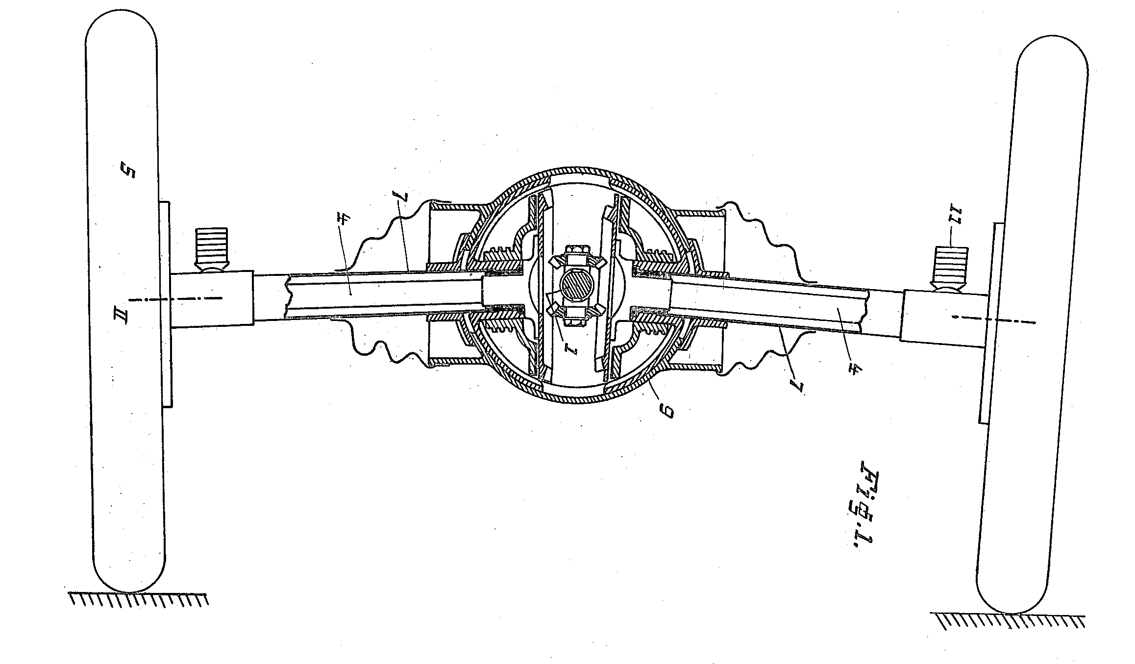 Rear-axle drive for motor vehicles, first image